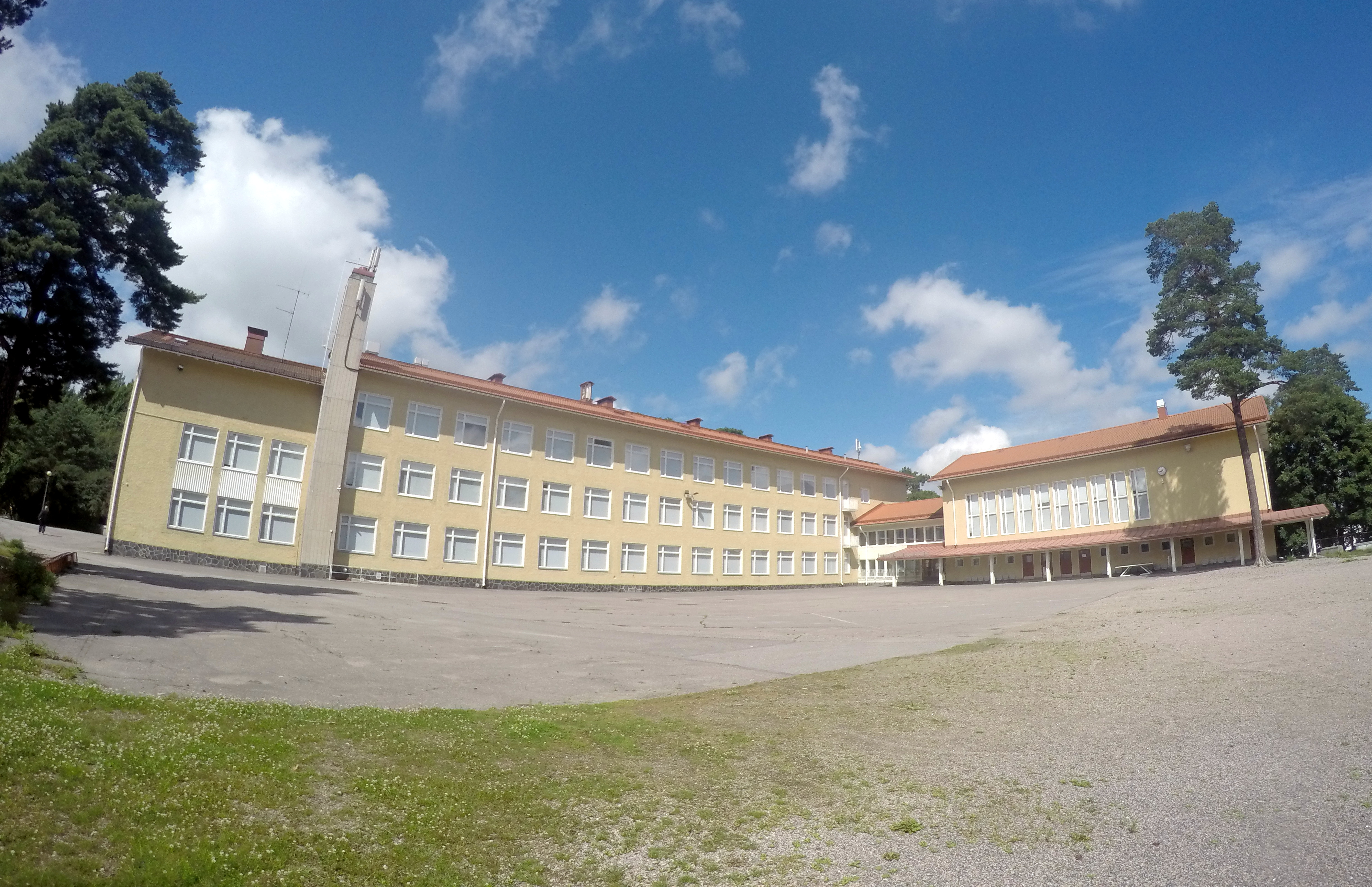 Helsingin kristillinen koulu is a school in Helsinki.